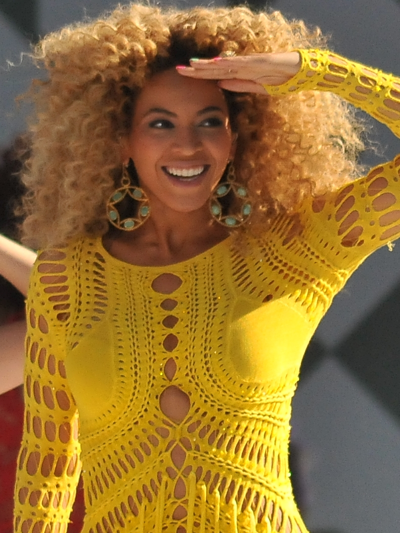 BEYONCE CONCERT IN CENTRAL PARK 2011 / Good Morning America's Summer Concert Series - Central Park, Manhattan NYC - 0701/11